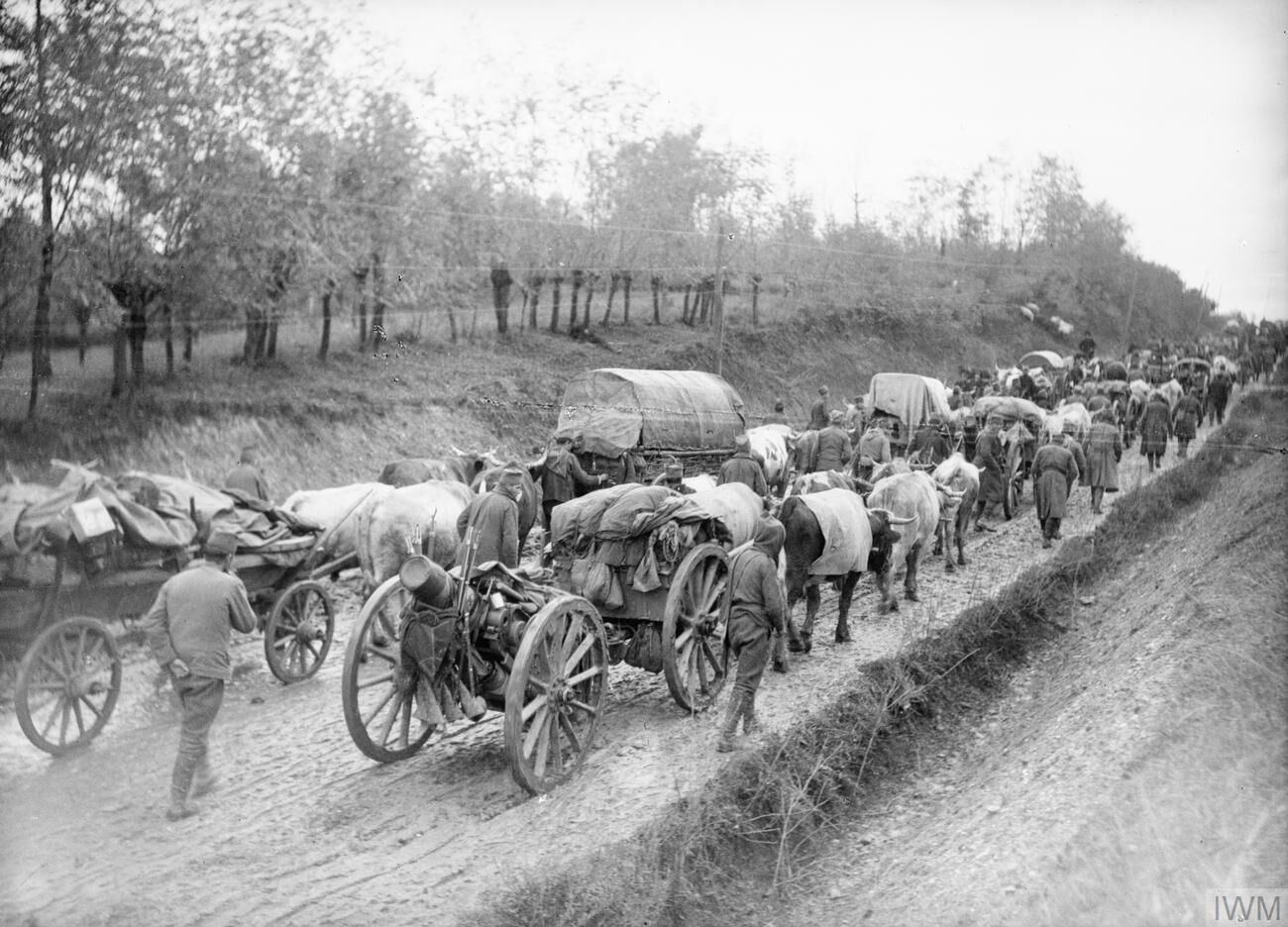 Ox drawn transport and artillery of the Serbian Army during its retreat to Albania.